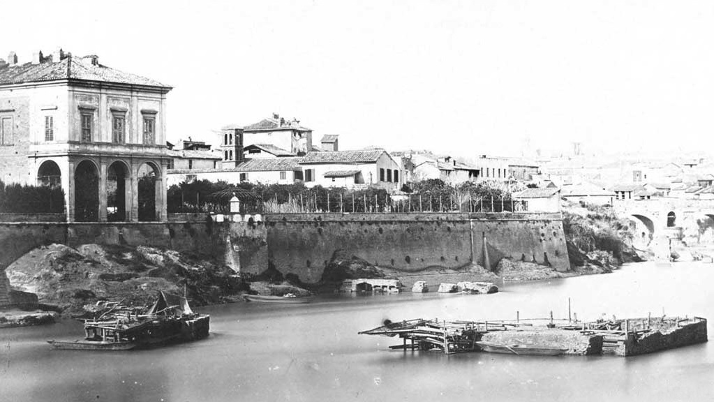 Casino di Donna Olimpia Pamphilj and the Complesso di Santa Maria in Cappella before 1890